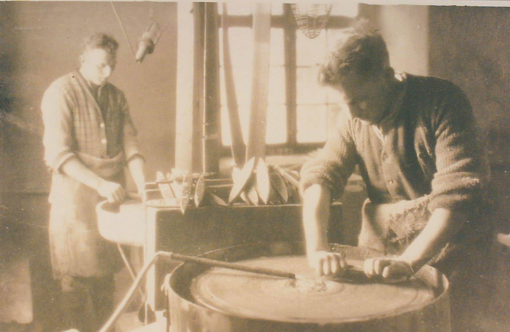 Whetstone-production in the Schwarzachtobel (in Schwarzach, Vorarlberg, Austria). Whetstone grinder at work (Troll company).